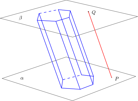 Illustrative figure of the prism definition.